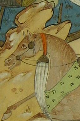 Persian miniature from a Mathnavi of Molavi manuscript from 891/1486. Picture by Mani Parsa in Image:اسب مولوی.JPG.